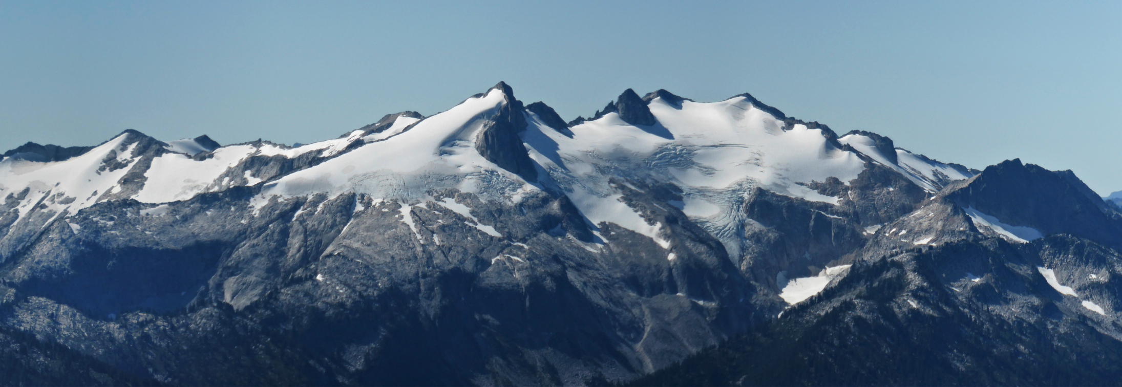 Snowking Mountain with Mutchler Peak to left, seen from Hidden Lake Peaks in North Cascades of WA state